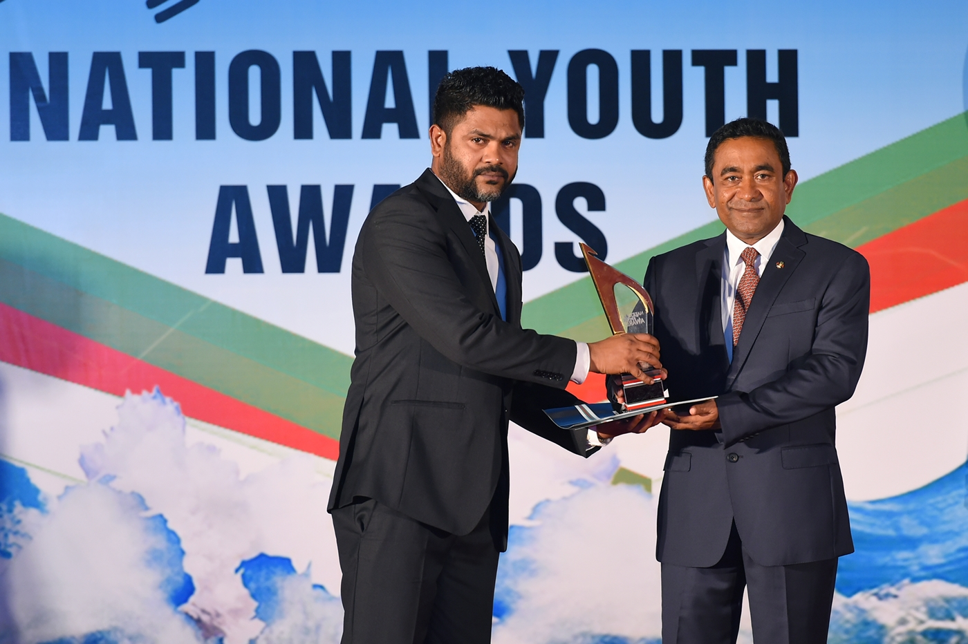 Journey (NGO) wins National Youth Award of 2014 by HEP Yaameen Abdul Gayyoom